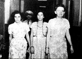 This is a picture of the arrest of Nationalists Carmen María Pérez Roque, Olga Viscal Garriga and Ruth Mary Reynolds during the Puerto Rican Nationalist Party Revolts of the 1950s.